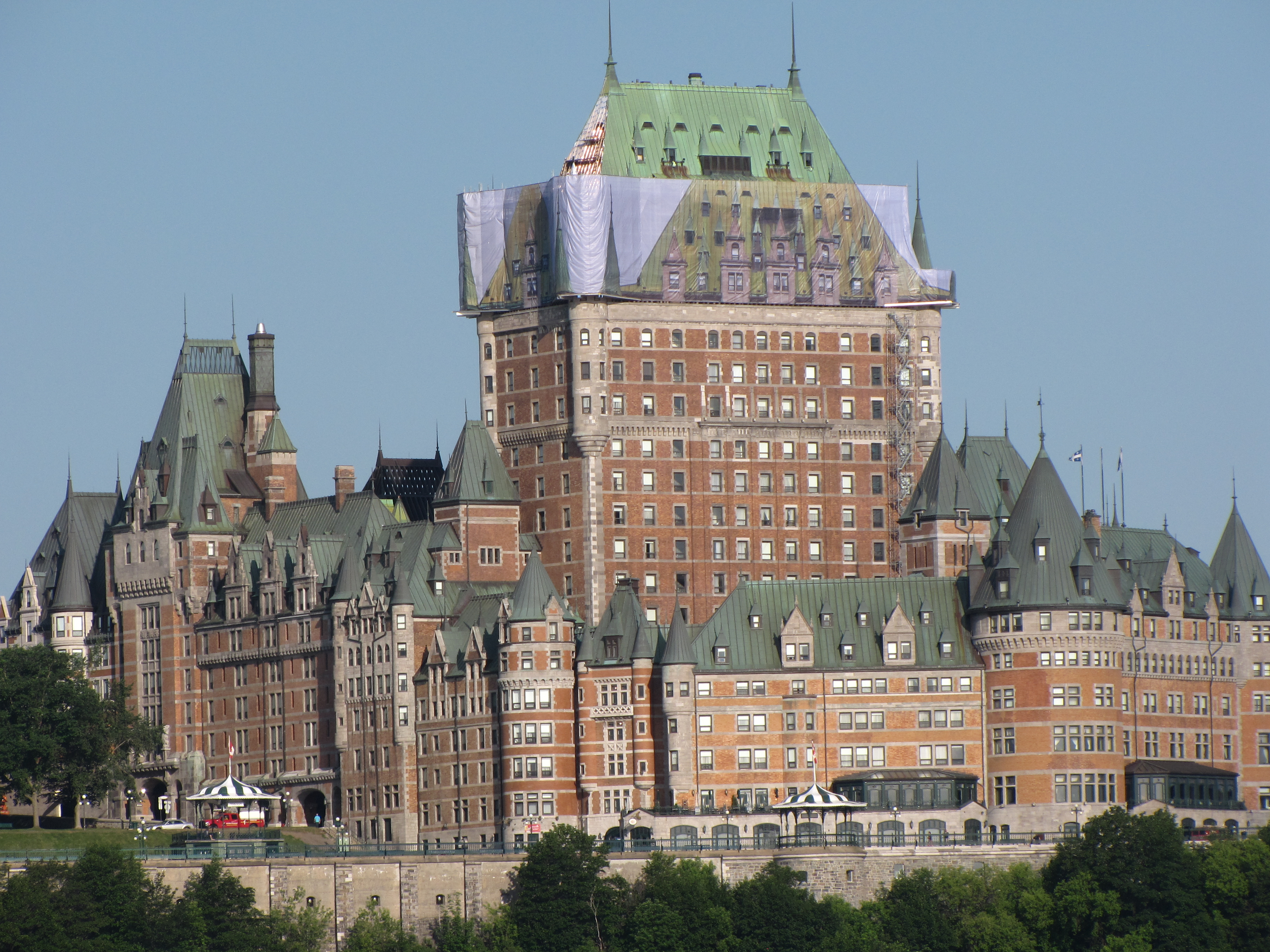 @EugeniaSoaresWD